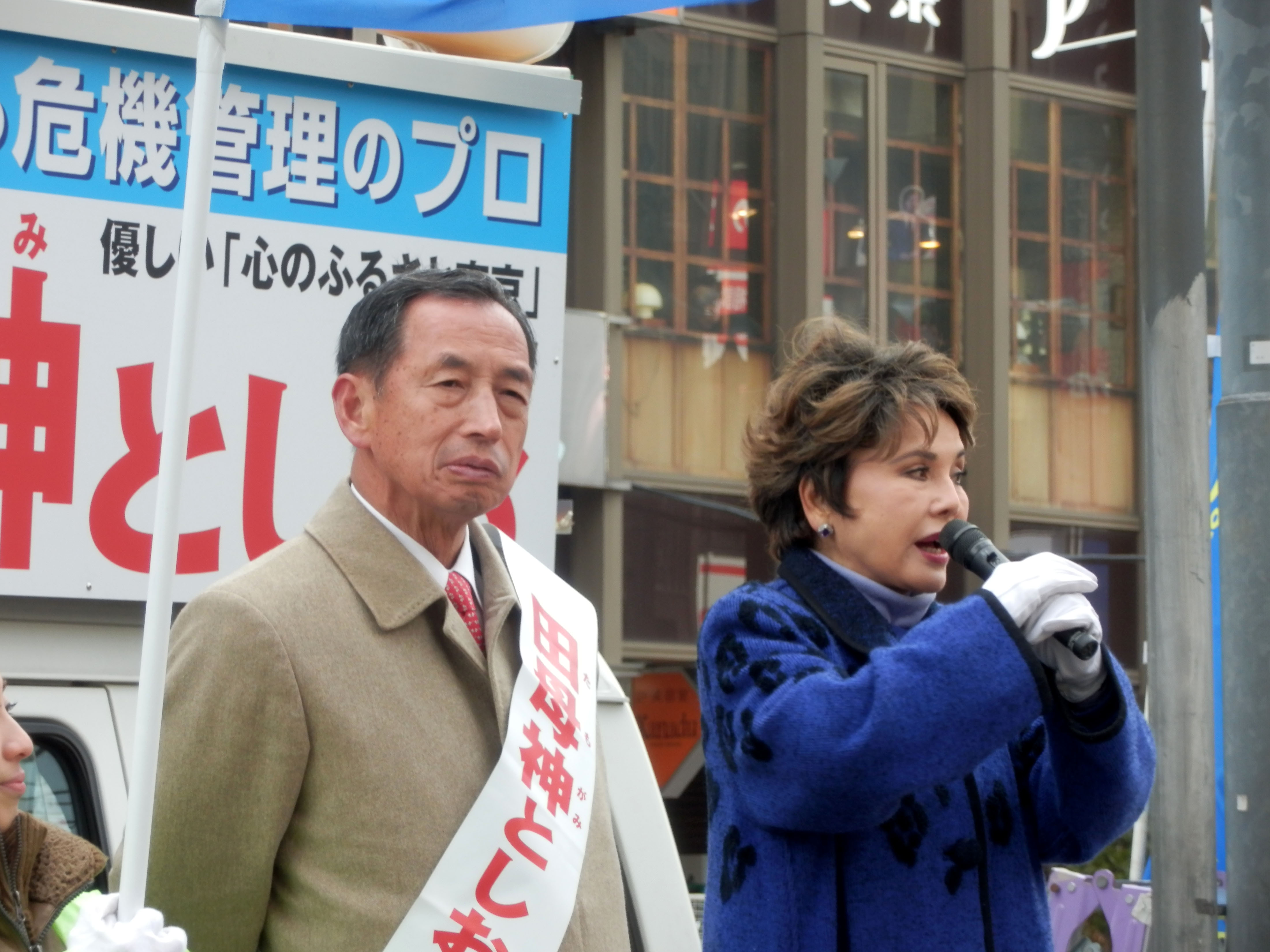 Toshio Tamogami (a candidate of Tokyo gubernatorial election) and Dewi Sukarno speaking in support of him.